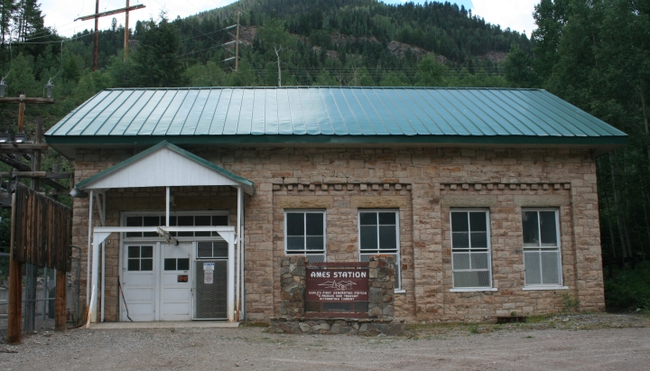 Ames Power Station, built 1905. This power station is on the site of the world's first commercial AC power plant. The station is located near Ophir, Colorado.